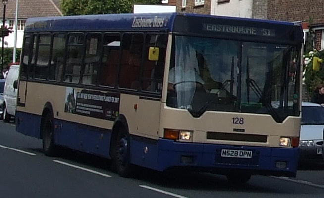 Eastbourne Buses 128 (M528 DPN), a DAF SB220/Ikarus, running through Polegate on service 51.